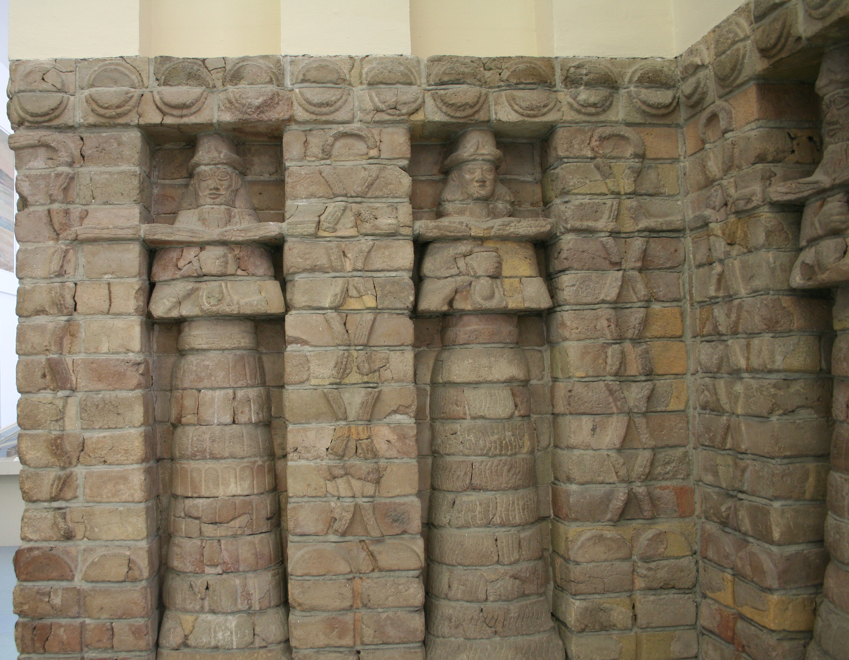 Vorderasiatisches Museum (Near East Museum), Berlin